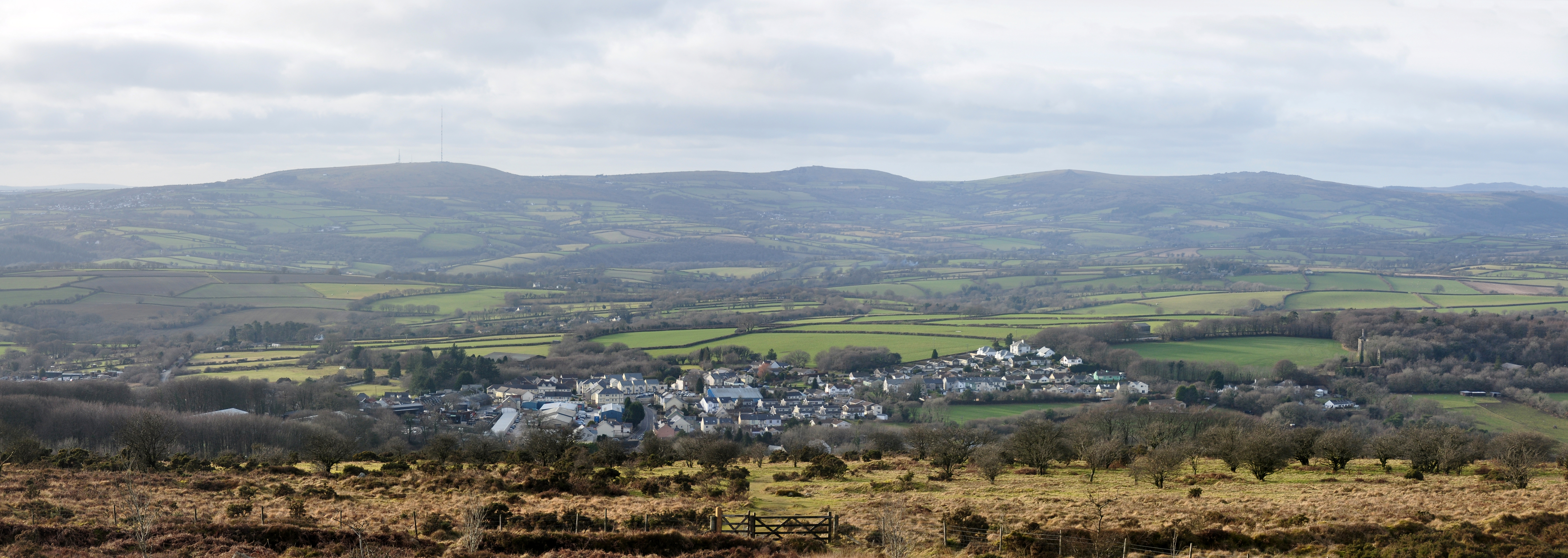 View west from Kit Hill in Cornwall, towards Bodmin Moor. The village in the foreground is Kelly Bray.